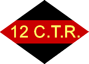 Unit patch insignia for the 12th Canadian Army Tank Regiment of WWII